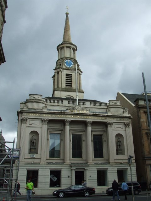 Hutchesons Hall. On Ingram Street in the Merchant City. By architect David Hamilton in 1805 on the site of the former Hutchesons hospital. See also 1480767 and 1480775.